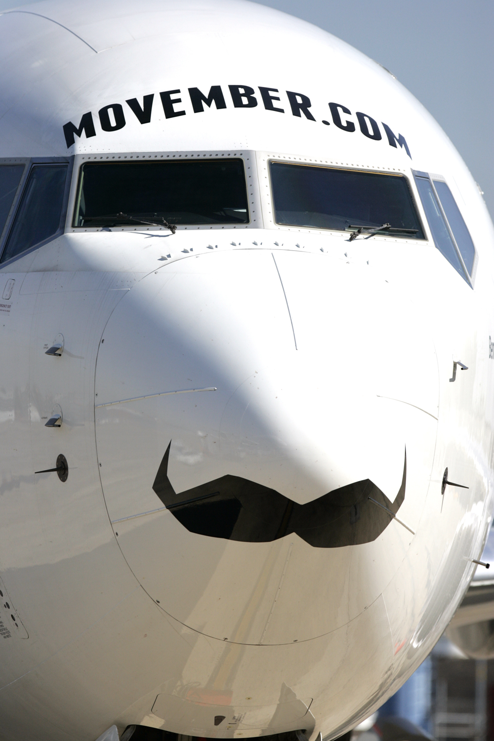 The Qantas Wallabies unveil a Boeing 737-800 aircraft sporting a giant moustache which will fly around the country for the month of November raising awareness of prostate cancer and men's mental health.